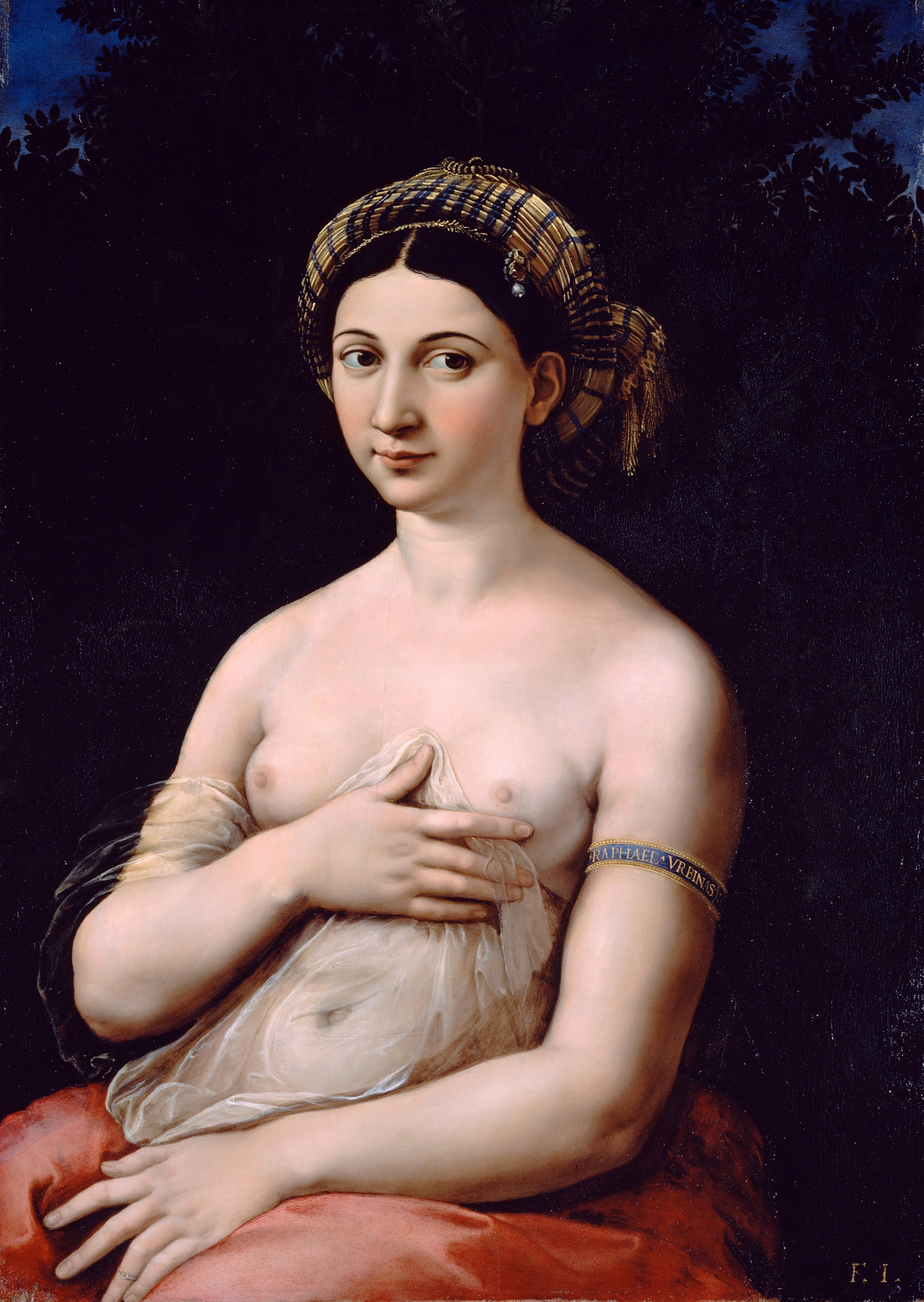 The Portrait of a Young Woman (also known as La fornarina) is a painting by the Italian High Renaissance master Raphael, made between 1518 and 1519.